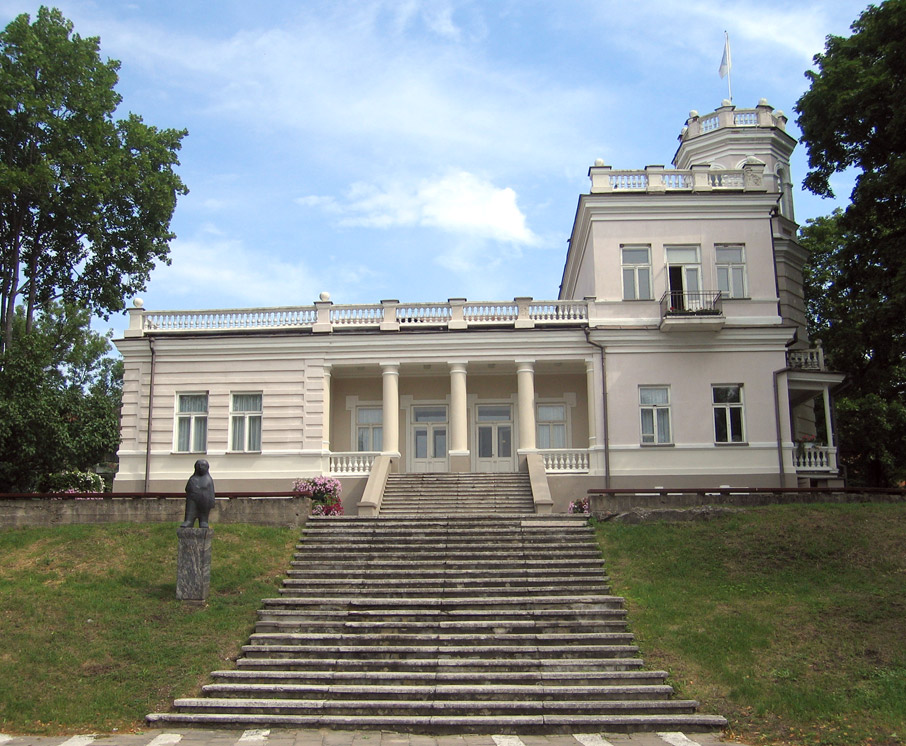 Druskininkai city museum, Lithuania